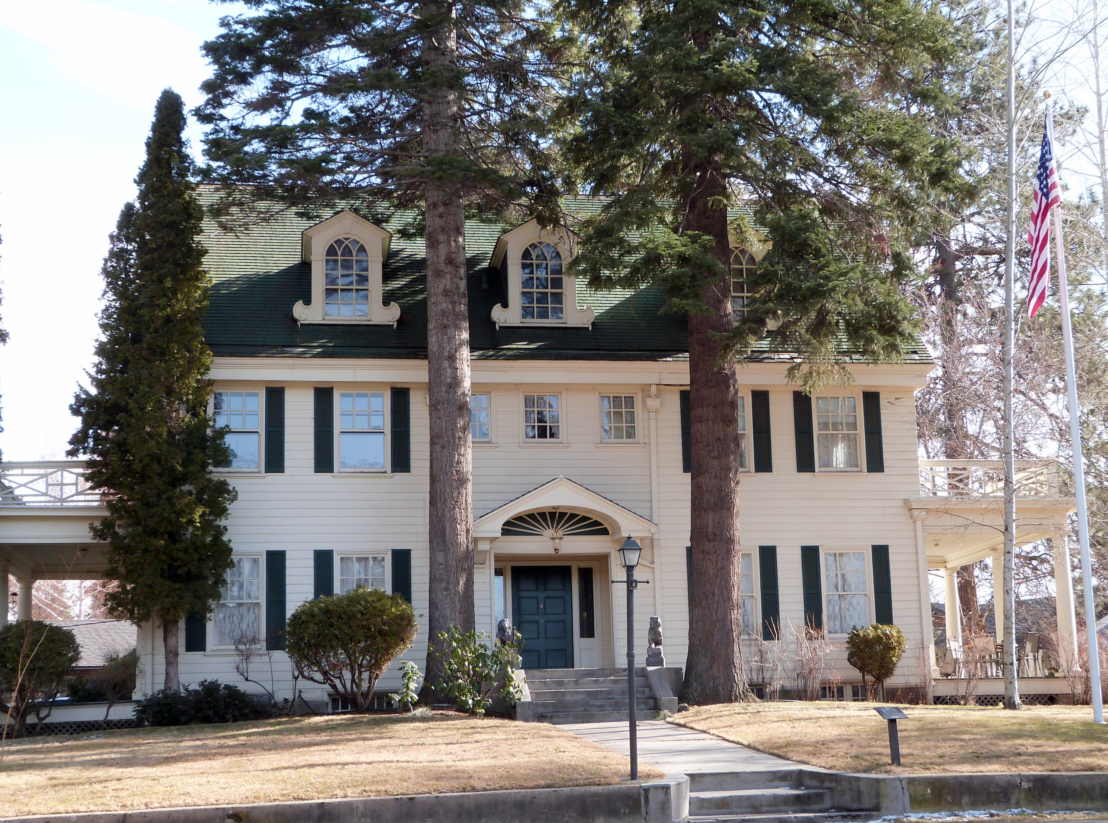 The historic Thomas McCann House (built 1915), located at 440 Northwest Congress Street in Bend, Oregon, United States, is listed on the US National Register of Historic Places. It is additionally identified as a contributing resource in the Drake Park Neighborhood Historic District.